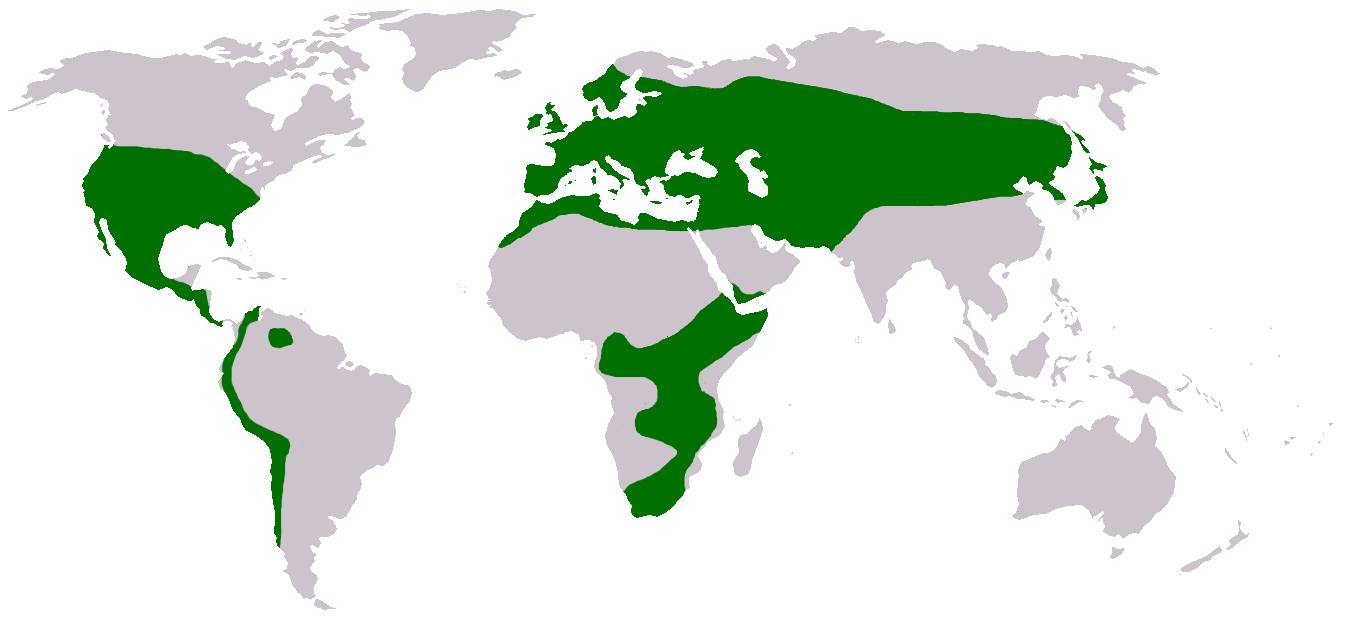 Distribution of the genus Trifolium